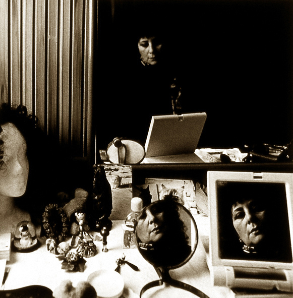 Isa Danieli portrait - Augusto De Luca photo